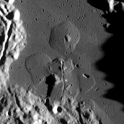 Group of shield volcanoes in Lacus Veris on the Moon. Photo by Lunar Reconnaissance Orbiter, made with Wide Angle Camera on 21 December 2010 from altitude 49 km. Sun elevation is 7.2°. Size of the photo is 30×30 km, north is approximately up. Look also an article on .